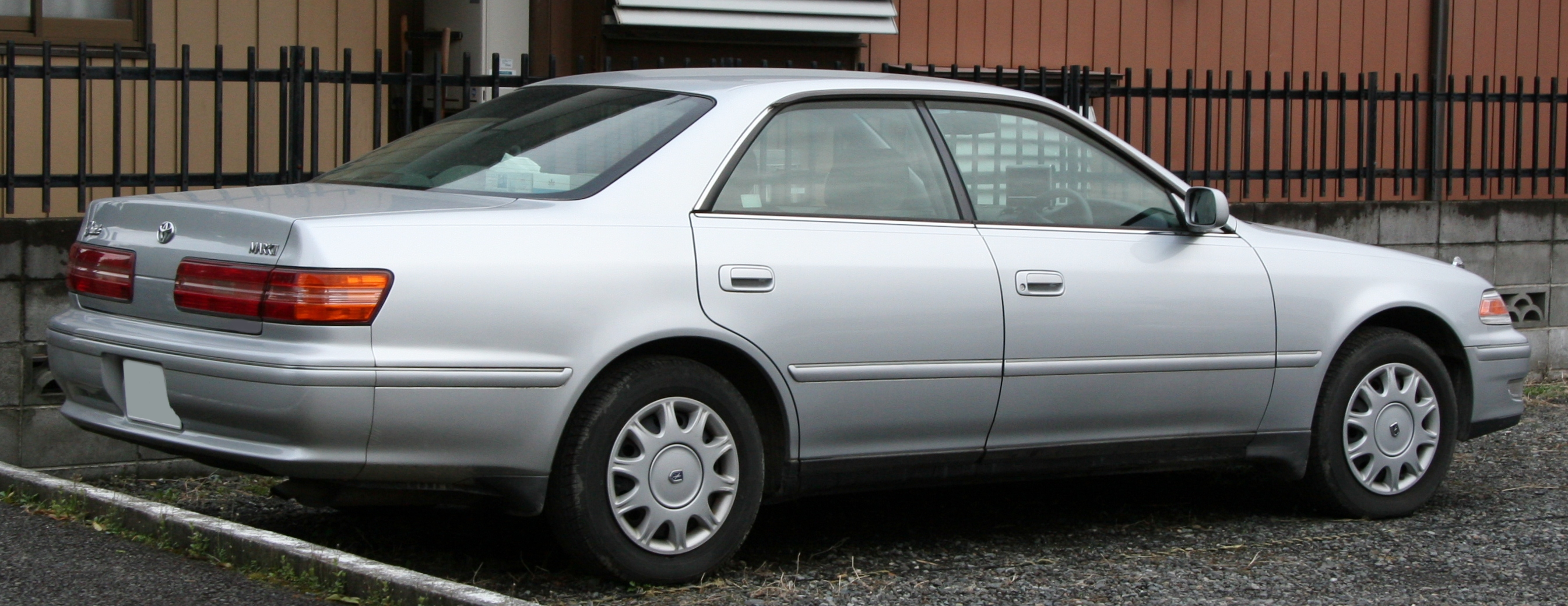 Toyota Mark II